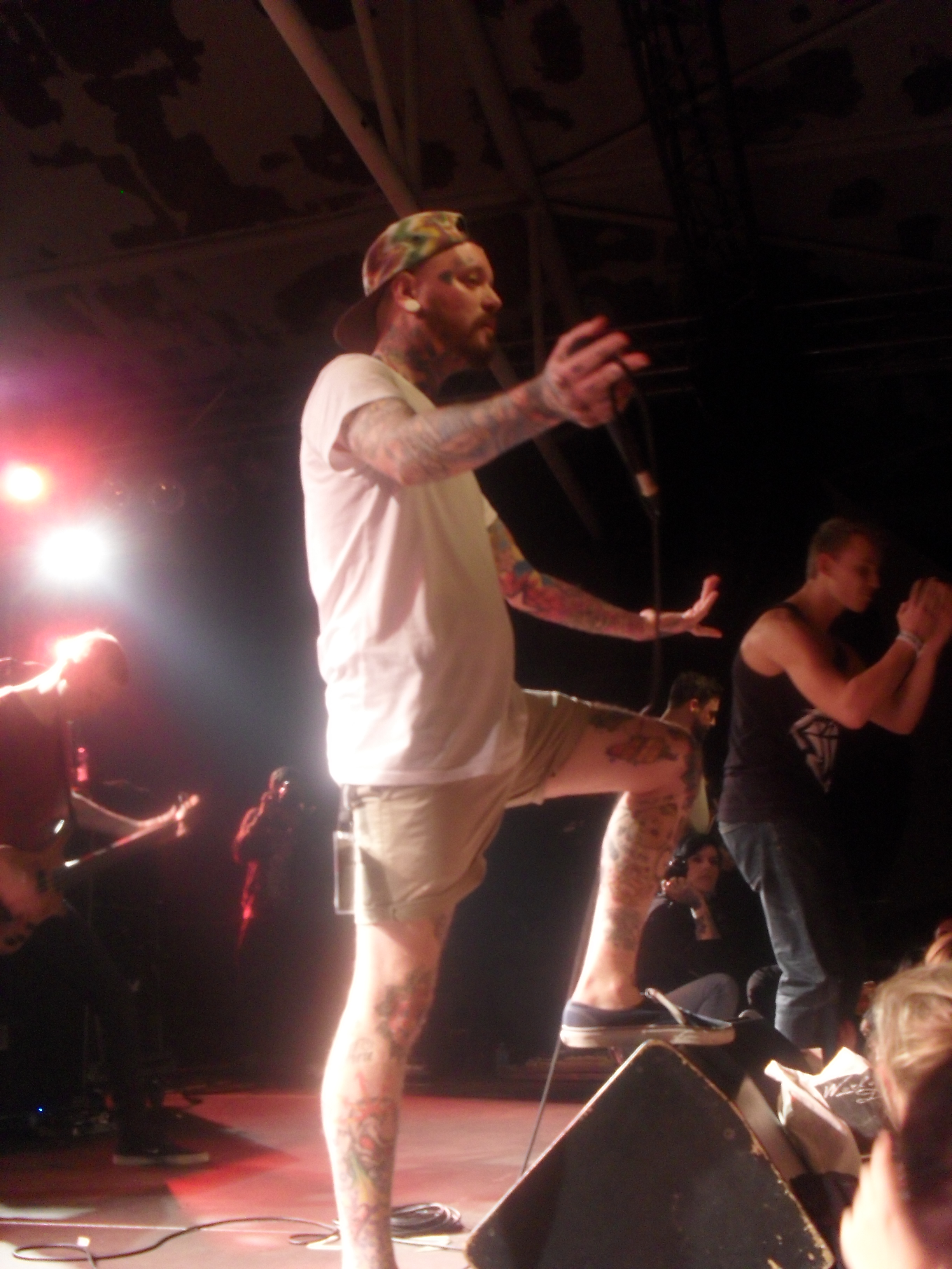 Charlie Holmes, vocalist of Heart in Hand (2013)